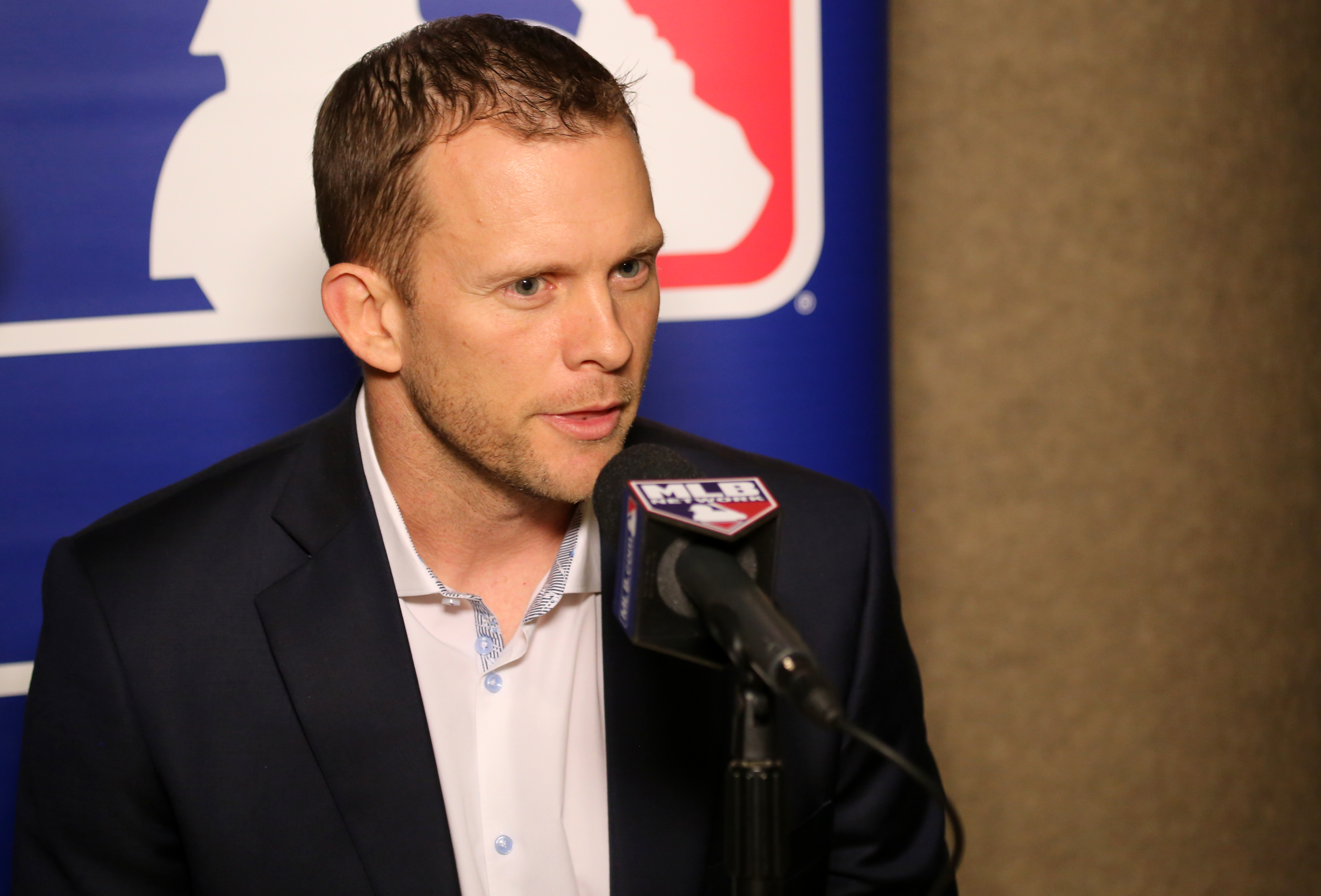 Padres skipper Andy Green talks to reporters at the #WinterMeetings.